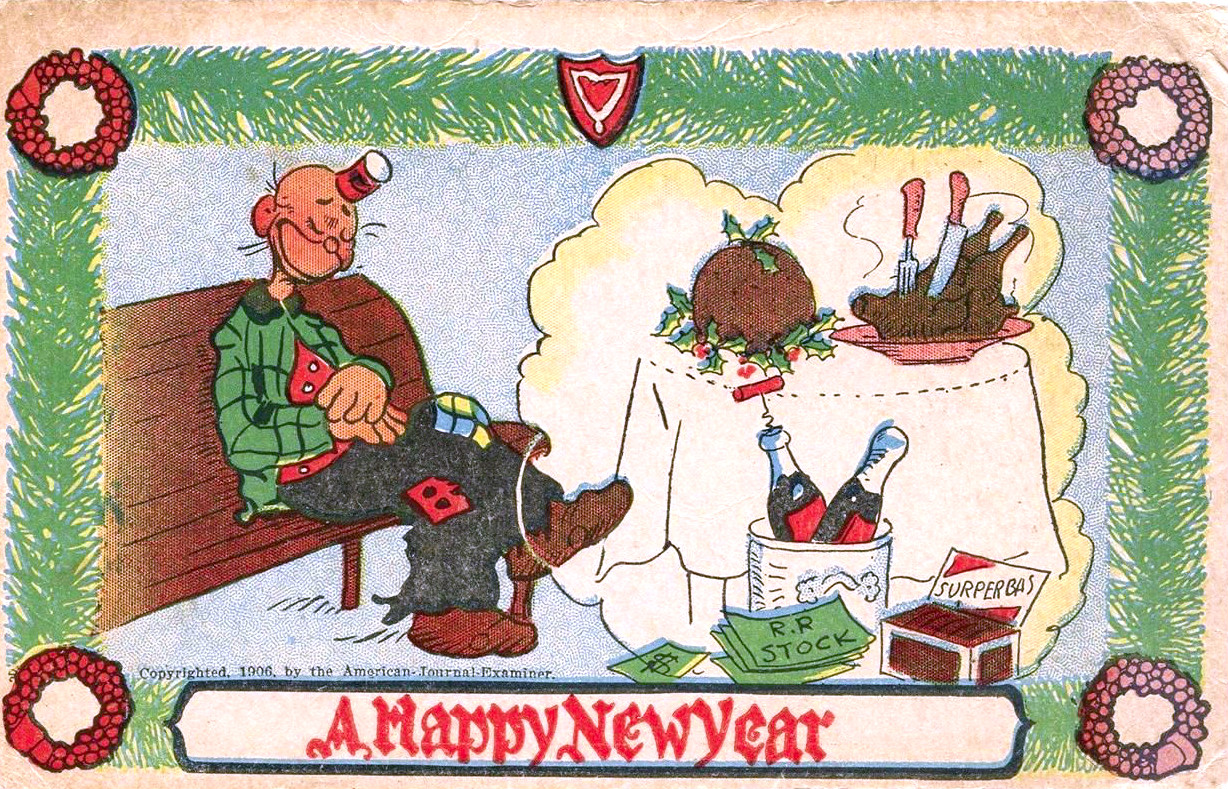 Comic New Year postcard of Happy Hooligan.